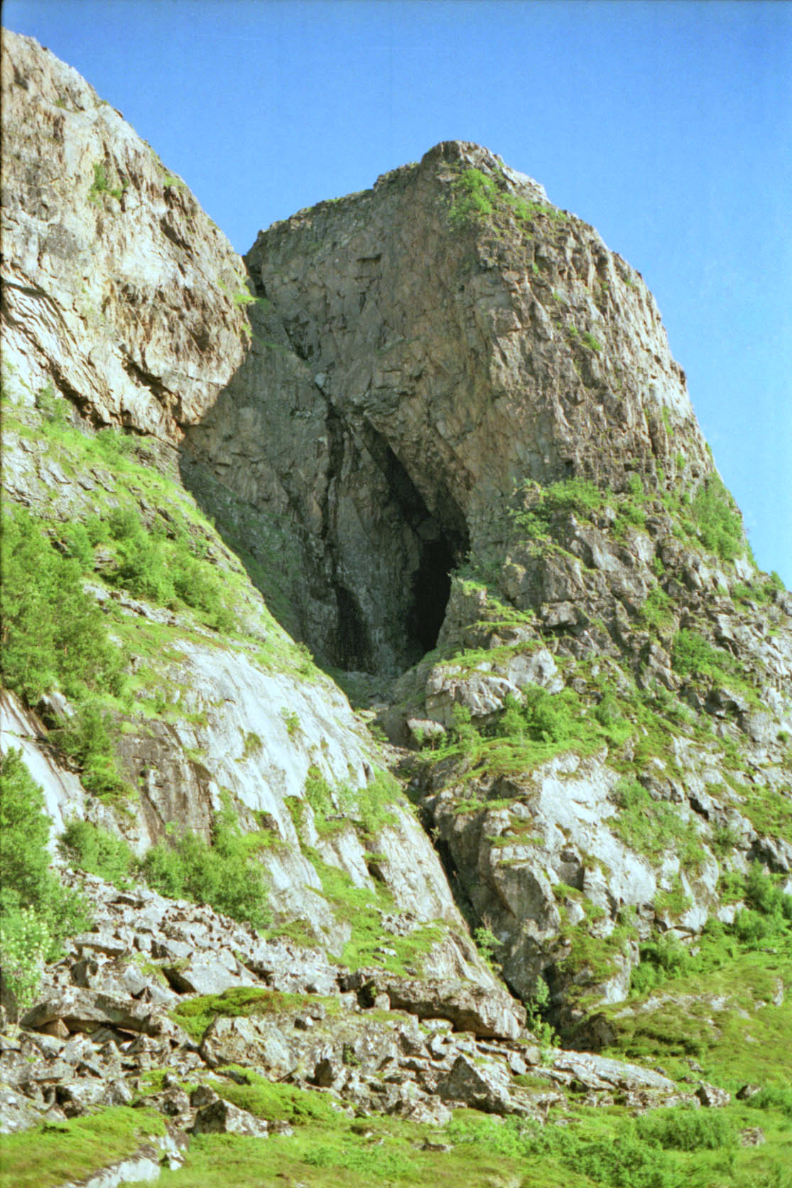 The Harbakk cave in Åfjord